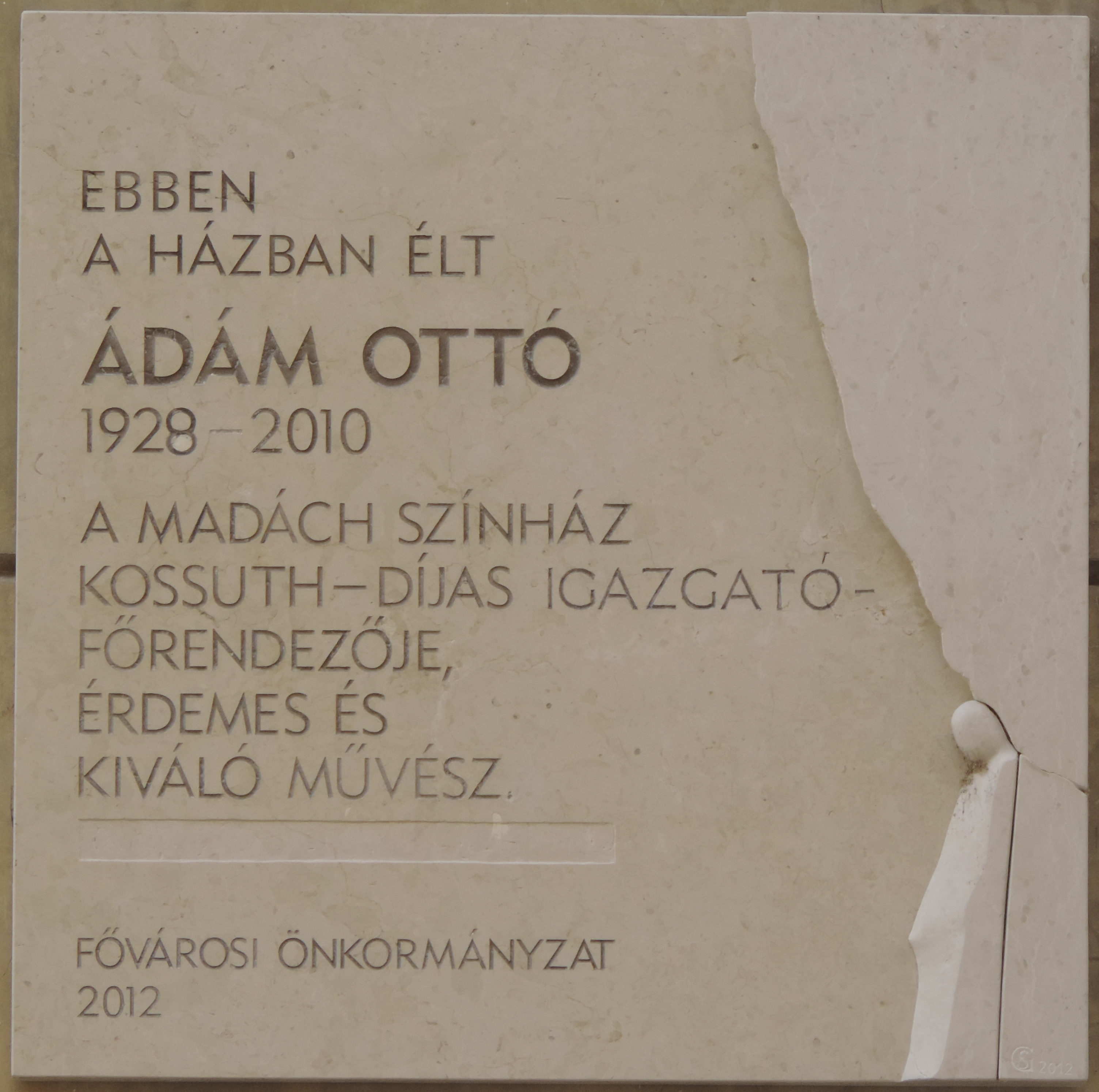 Commemorative plaque of Ottó Ádám in Budapest District V, Galamb utca No 4